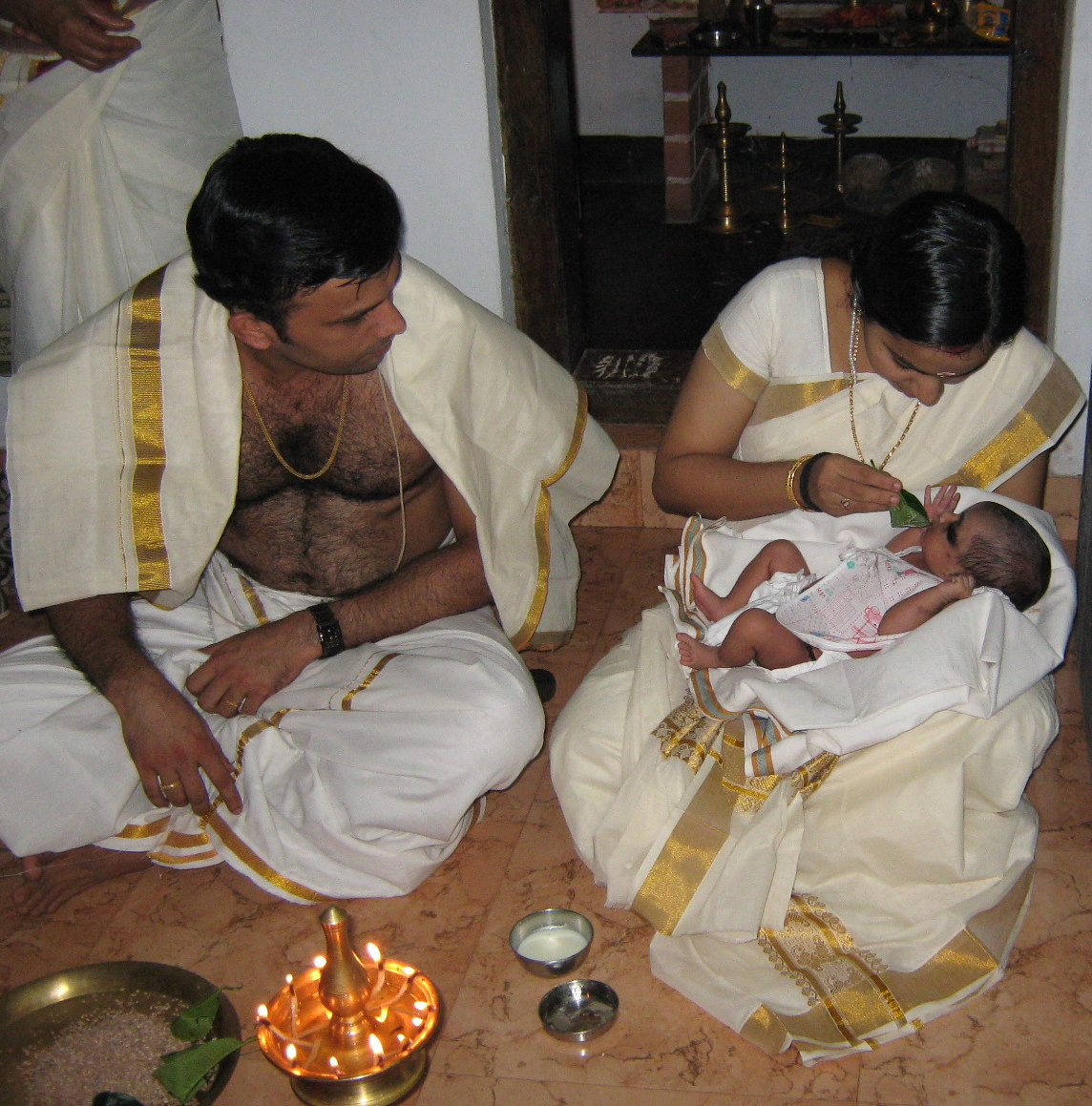 choroonu or rice ceremony is a ceremony where one (firstly by father and mother ) gives rice to the baby for the first time. It is also the starting of adulthood to the baby and it can be conducted in home or temple. It is according to the prayers of parents.